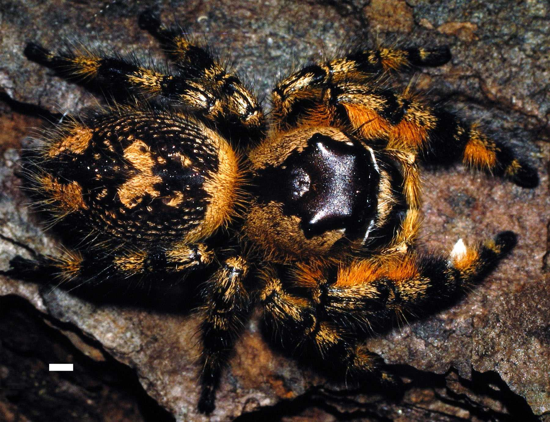 Female Phidippus otiosus jumping spider from Newnan's Lake, Alachua County, Florida, USA